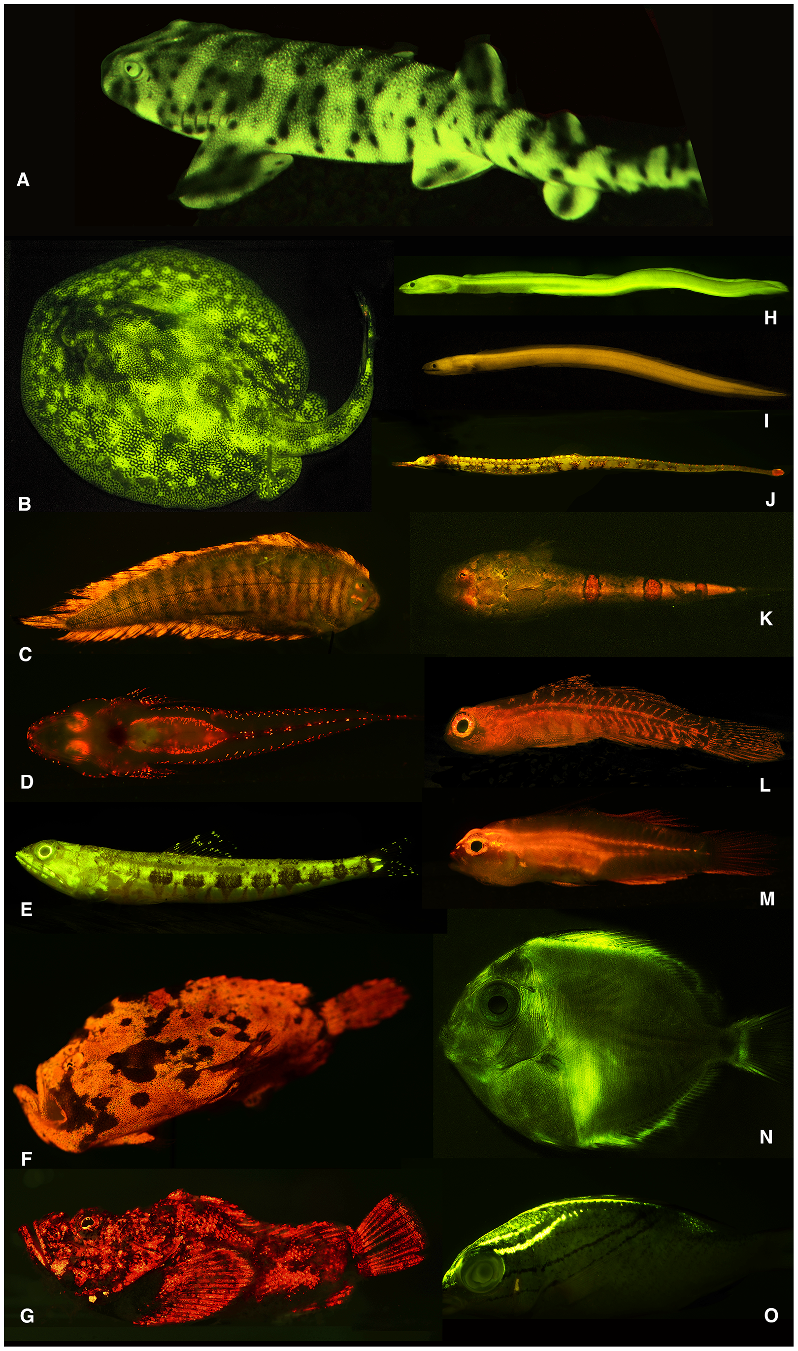 A, swell shark (Cephaloscyllium ventriosum); B, ray (Urobatis jamaicensis); C, sole (Soleichthys heterorhinos); D, flathead (Cociella hutchinsi); E, lizardfish (Synodus dermatogenys); F, frogfish (Antennarius maculatus); G, false stonefish (Scorpaenopsis diabolus); H, false moray eel (Kaupichthys brachychirus); I, false moray eel (Kaupichthys nuchalis); J, pipefish (Corythoichthys haematopterus); K, sand stargazer (Gillellus uranidea); L, goby (Eviota sp.); M, goby (Eviota atriventris); N, surgeonfish (Acanthurus coeruleus, larval); O, threadfin bream (Scolopsis bilineata).